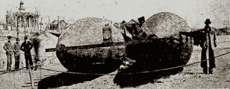 Waterloo (Iowa) Airship Hoax 1897